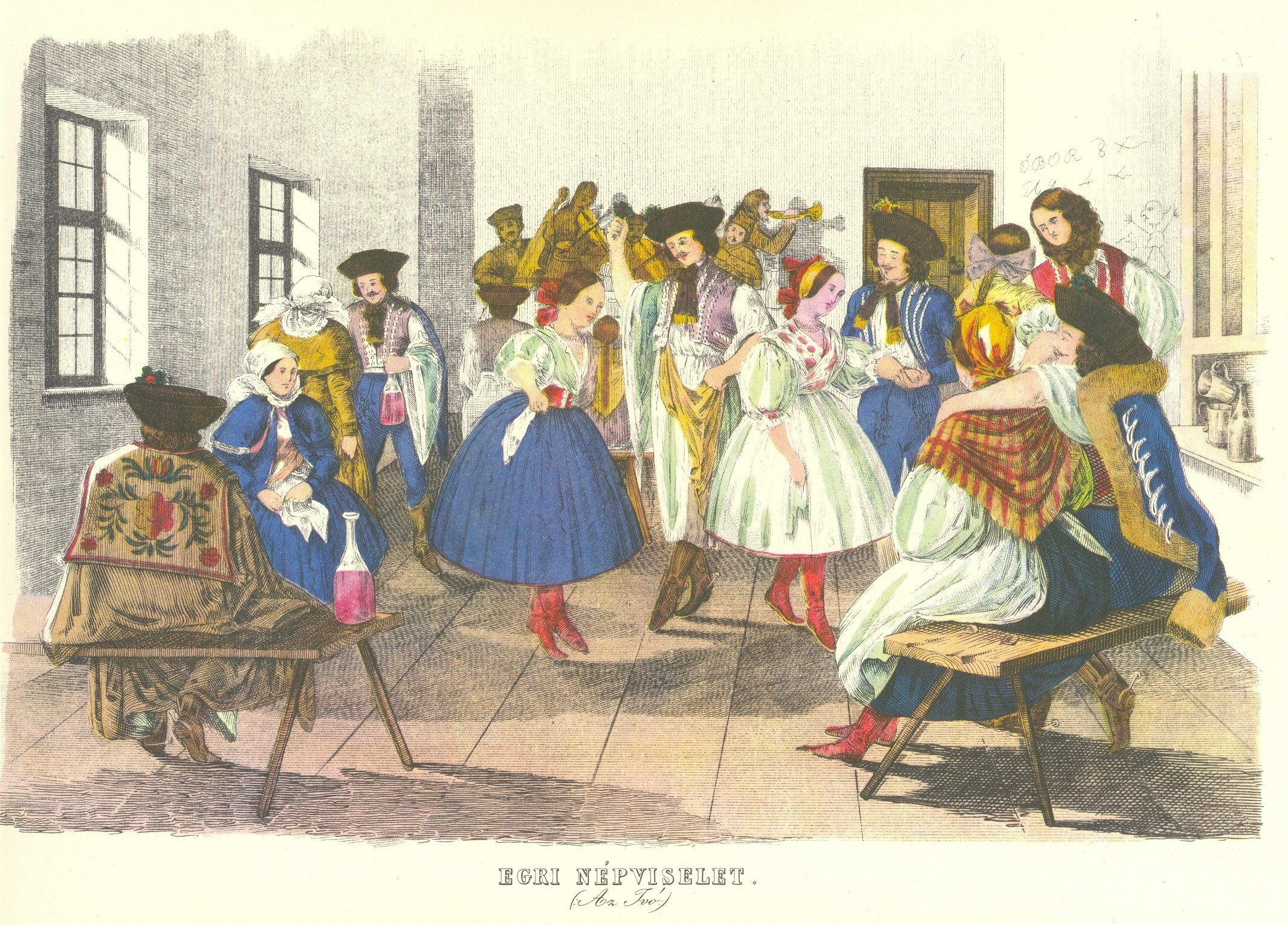 The tavern; Traditional clothing of the citizens of Eger, Hungary